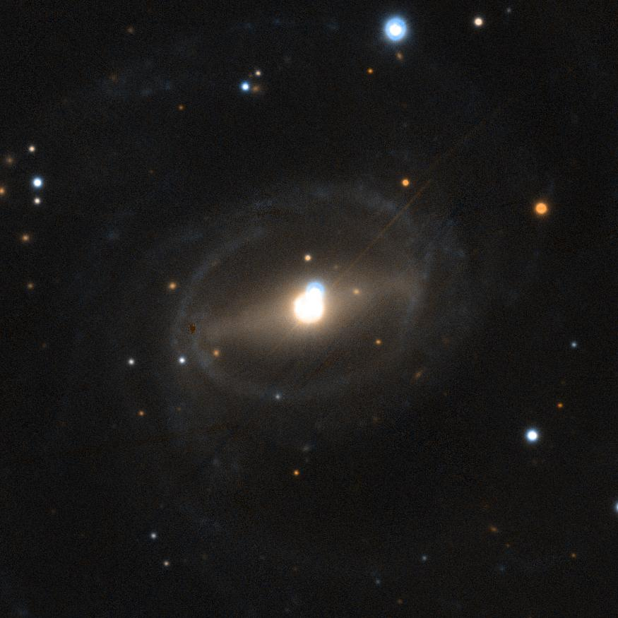 PanSTARRS image of NGC 3313.